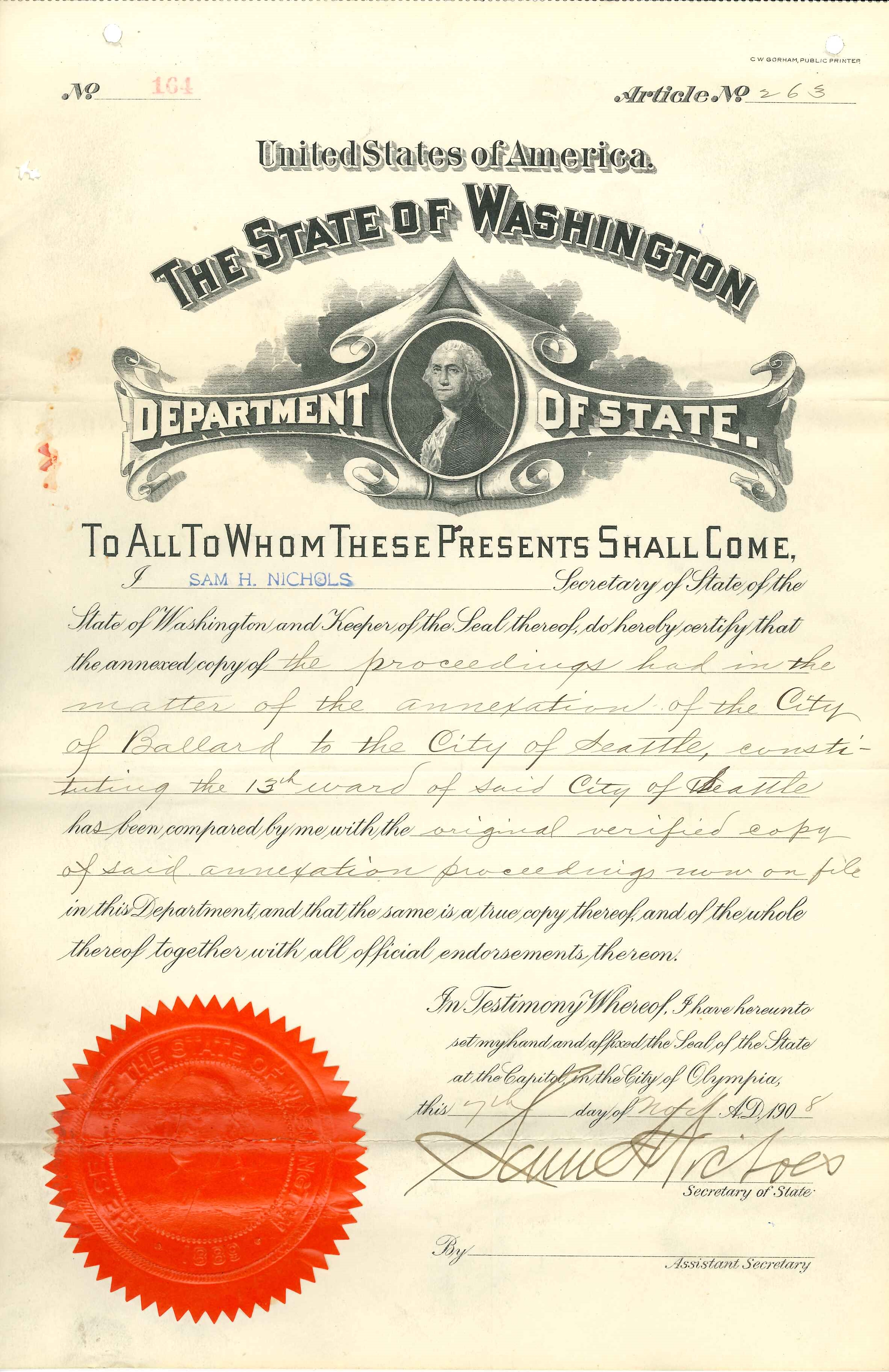 Certification of Ballard's annexation to Seattle, November 7, 1908. Seattle, Washington, U.S. Ballard officially became part of Seattle on May 29, 1907. Item 1, Box 1, Folder 1, Annexed Cities Annexation Documents (Record Series 1802-A1) Seattle Municipal Archives.